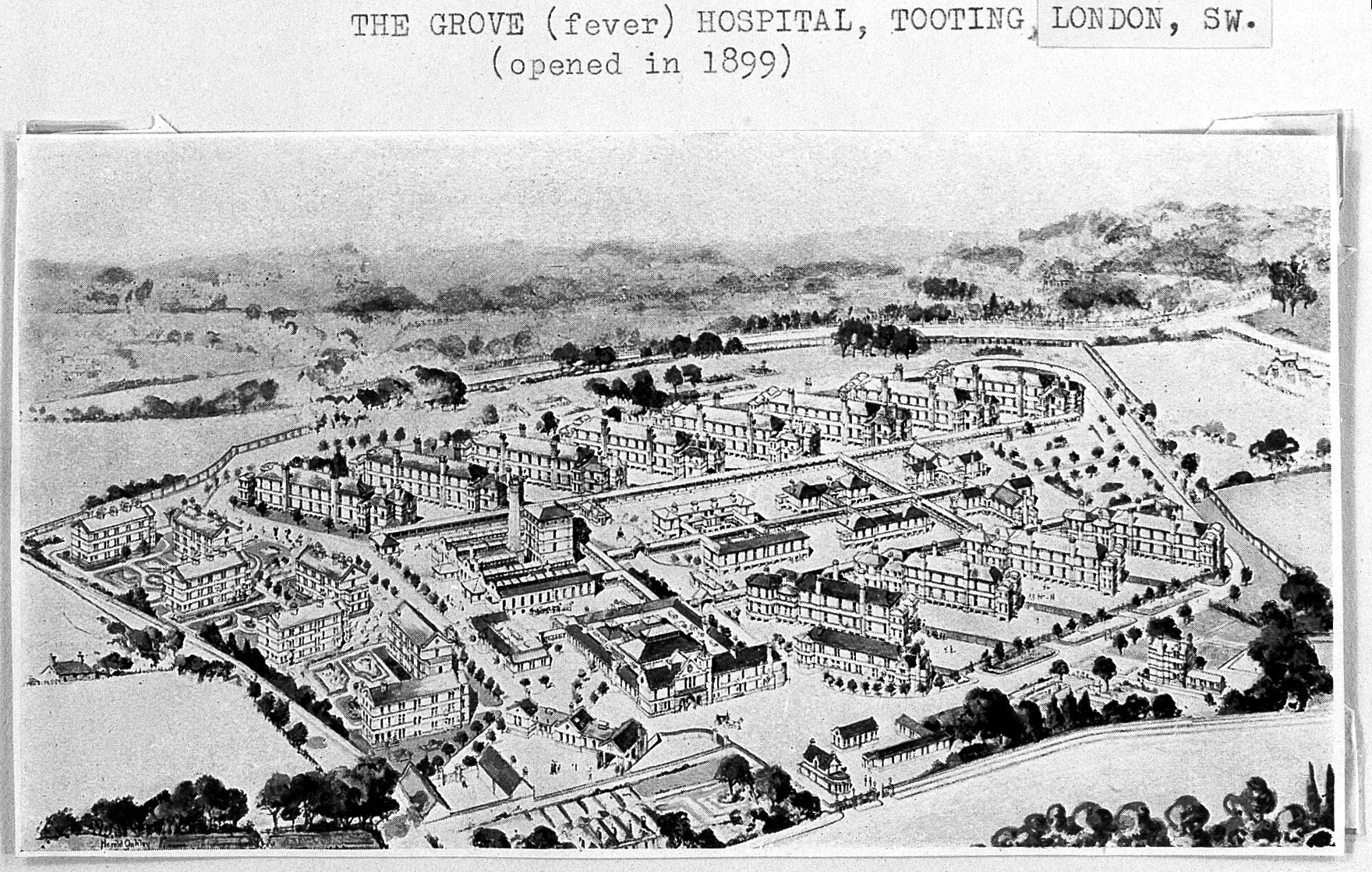 The Grove (Fever) Hospital, Tooting. General Collections Keywords: Institutions